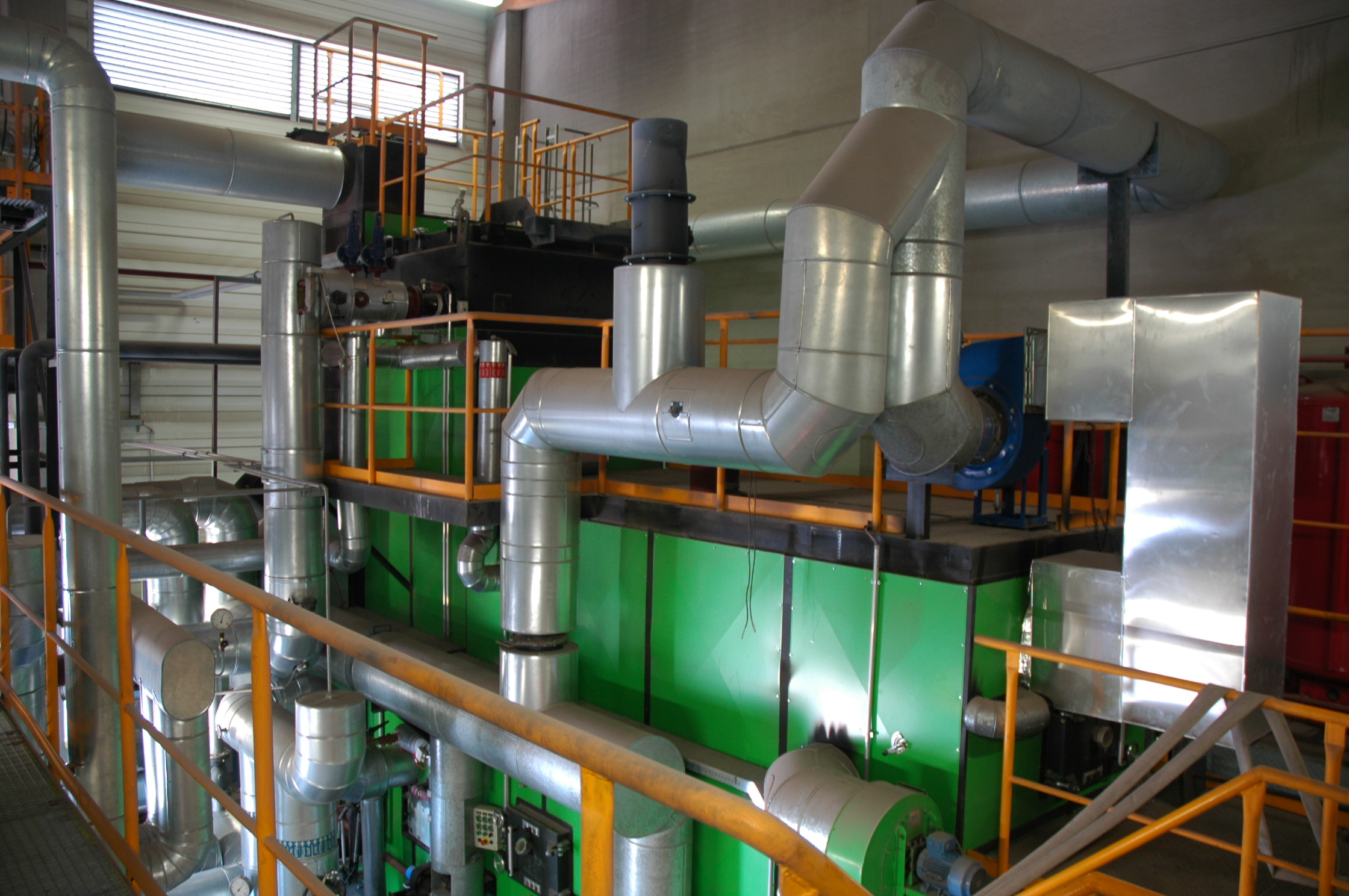 Biomass heating vessel made by Urbas (Austria), thermal power 2000 kW